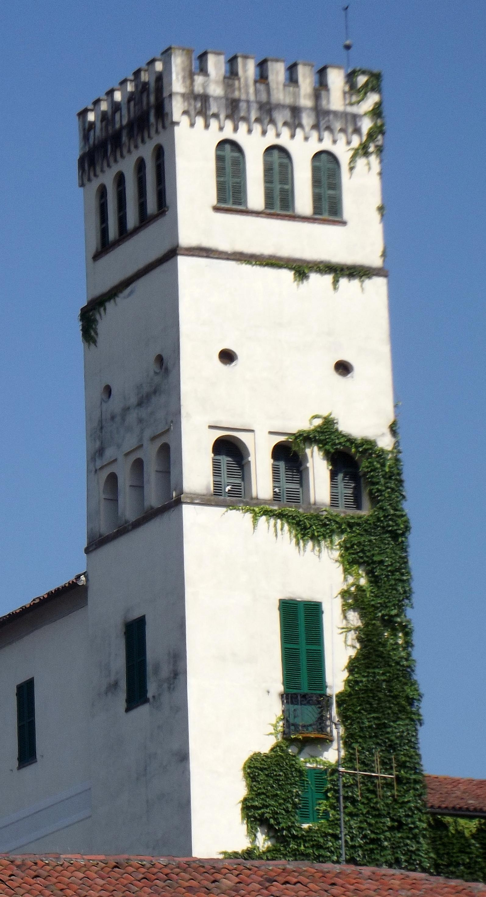 Monale (AT, Italy): Bastita tower